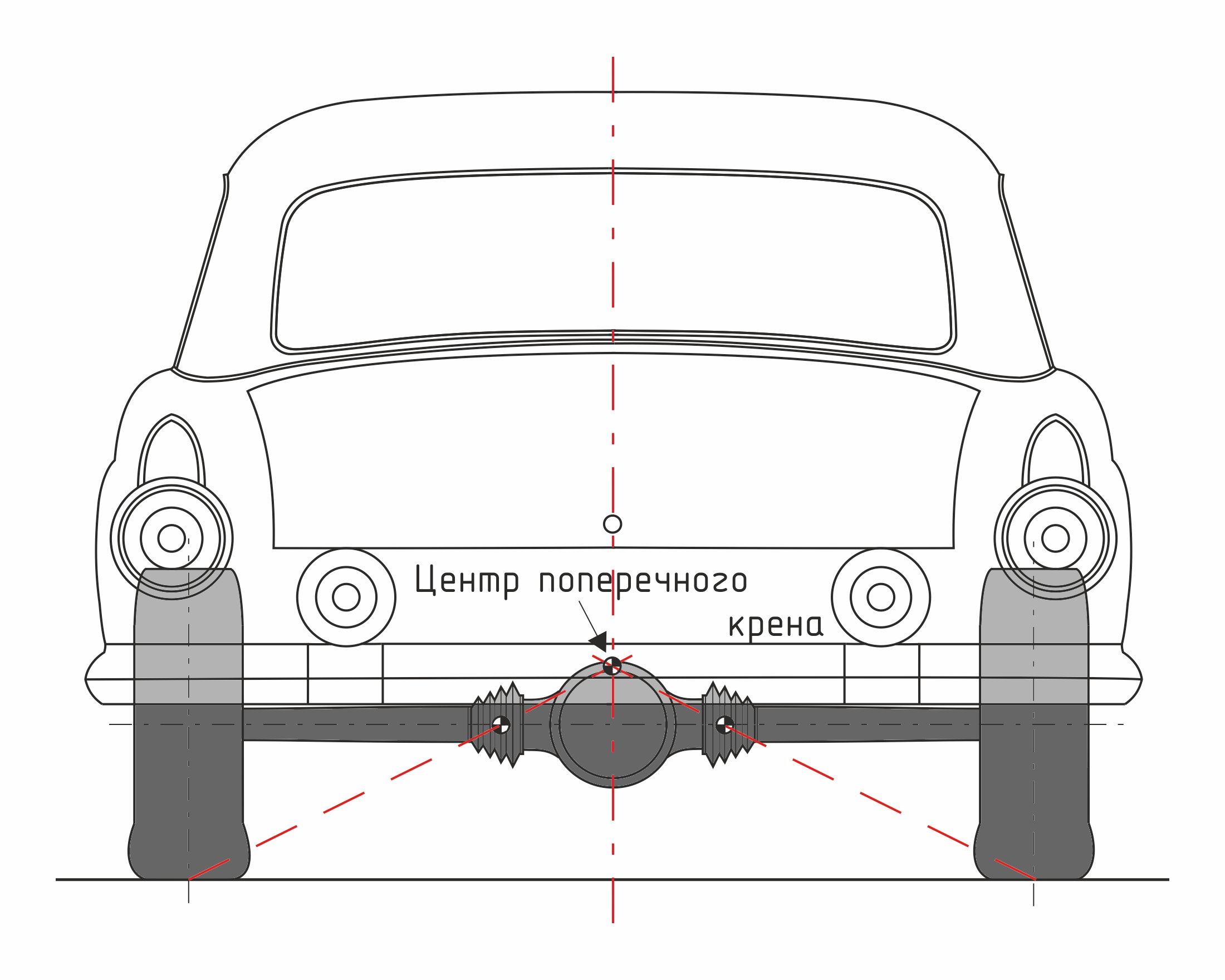 Finding the roll center of a swing axle suspension with Russian description.